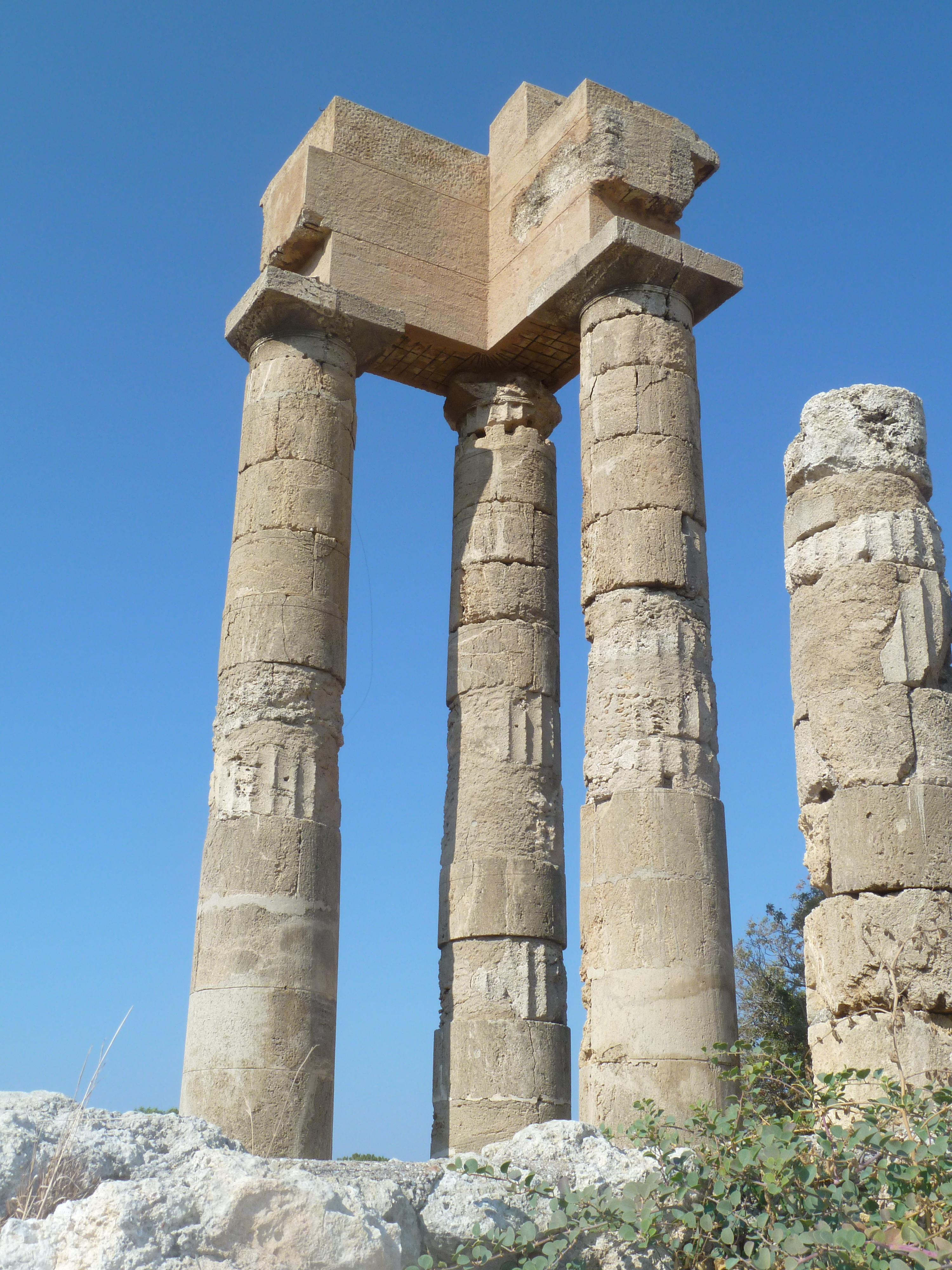 Acropolis, Rhodes, Greece 2014